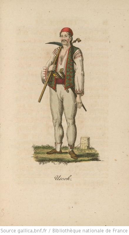 Croats